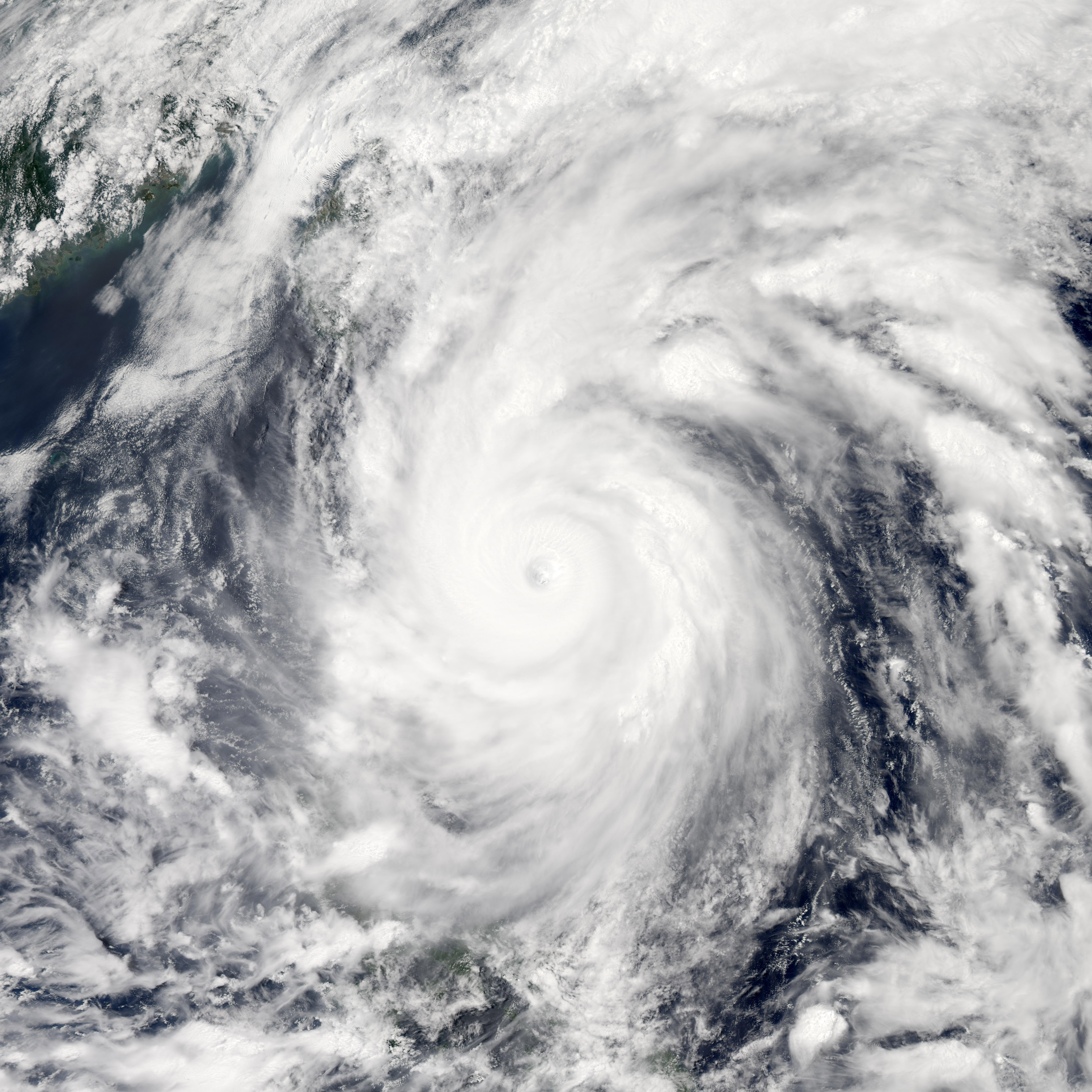 Super Typhoon Songda swirled off the coast of Luzon, at the northern end of the Philippine Islands, on the afternoon of May 27, 2011. Peak winds were around 240 kilometers (150 miles) per hour at 06:00 Universal Time (2 p.m. local time), according to the Joint Typhoon Warning Center (JTWC). This photo-like image shows Songda roughly an hour prior to the JTWC wind speed measurement. The data were collected by the Moderate Resolution Imaging Spectroradiometer (MODIS) on NASA’s Aqua satellite at 1:10 p.m. local time (5:10 UTC) on May 27. The distinct, but cloud-filled eye of the super typhoon was well offshore from the major islands of Luzon and Taiwan, though spiral arms of the storm extended for hundreds of kilometers from the center, bringing severe weather to both places. The storm’s track was predicted to keep it offshore from Taiwan, curving eastward as it travels north. While the storm is quite intense, the fact it has stayed far offshore has kept casualities and damage light. One death in the Philippines had been ascribed to the storm, according to the Philippines disaster council. There has been some crop damage, but since the storm buffeted the islands past the date of harvest, agricultural yields have not been affected. There is some concern along coastal areas of Japan, though Super Typhoon Songda should lose much of its power by May 29, with winds likely down to tropical storm strength, according to predictions.